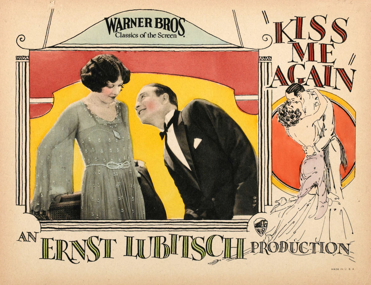 Lobby card from the American comedy romance film Kiss Me Again (1925).